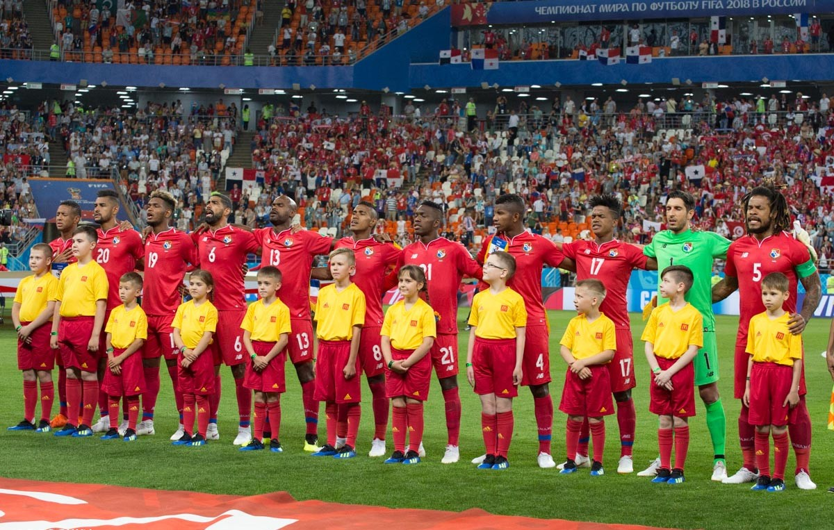 Panama national football team